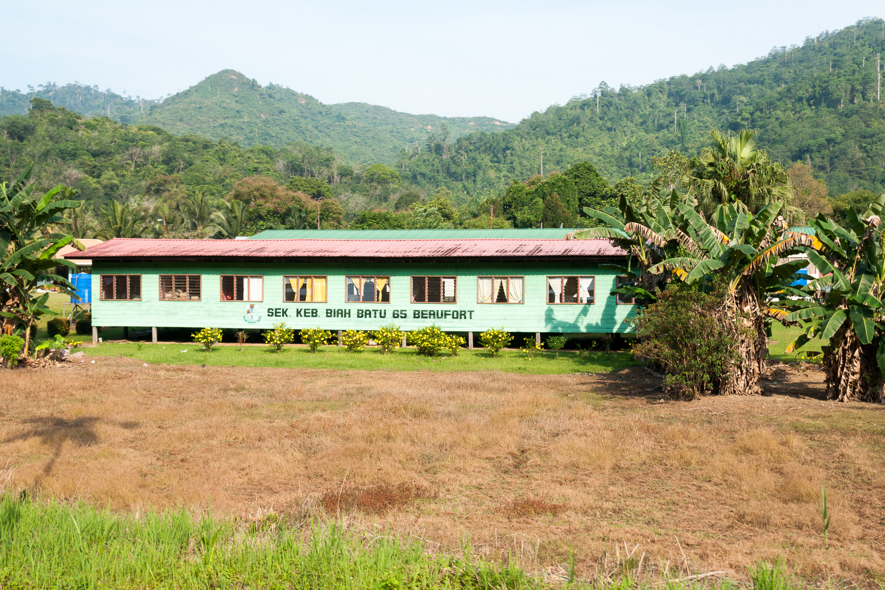 Beaufort, Sabah: Sekolah Kebangsaan Biah Batu. (SK Biah Batu; national School) in the Padas River Valley